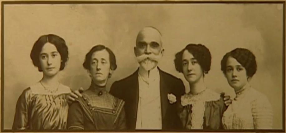 Bernardino Machado, with his wife Elzira Dantas Machado, and three of their daughters.